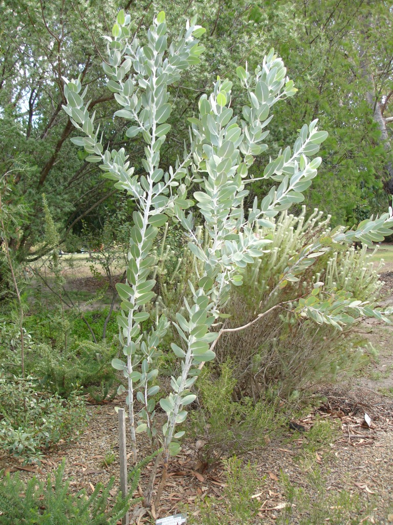 Photographed at Maranoa Gardens, Melbourne, Victoria, Australia by HelloMojo 09:06, 6 April 2007 (UTC)